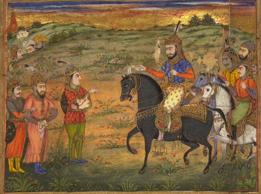 Shahnameh illustration of Valerian captured by Shapur I's men.